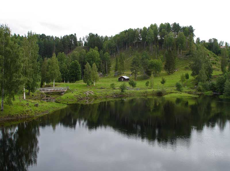 Pastures by the river Faxälven below Ramsele community.